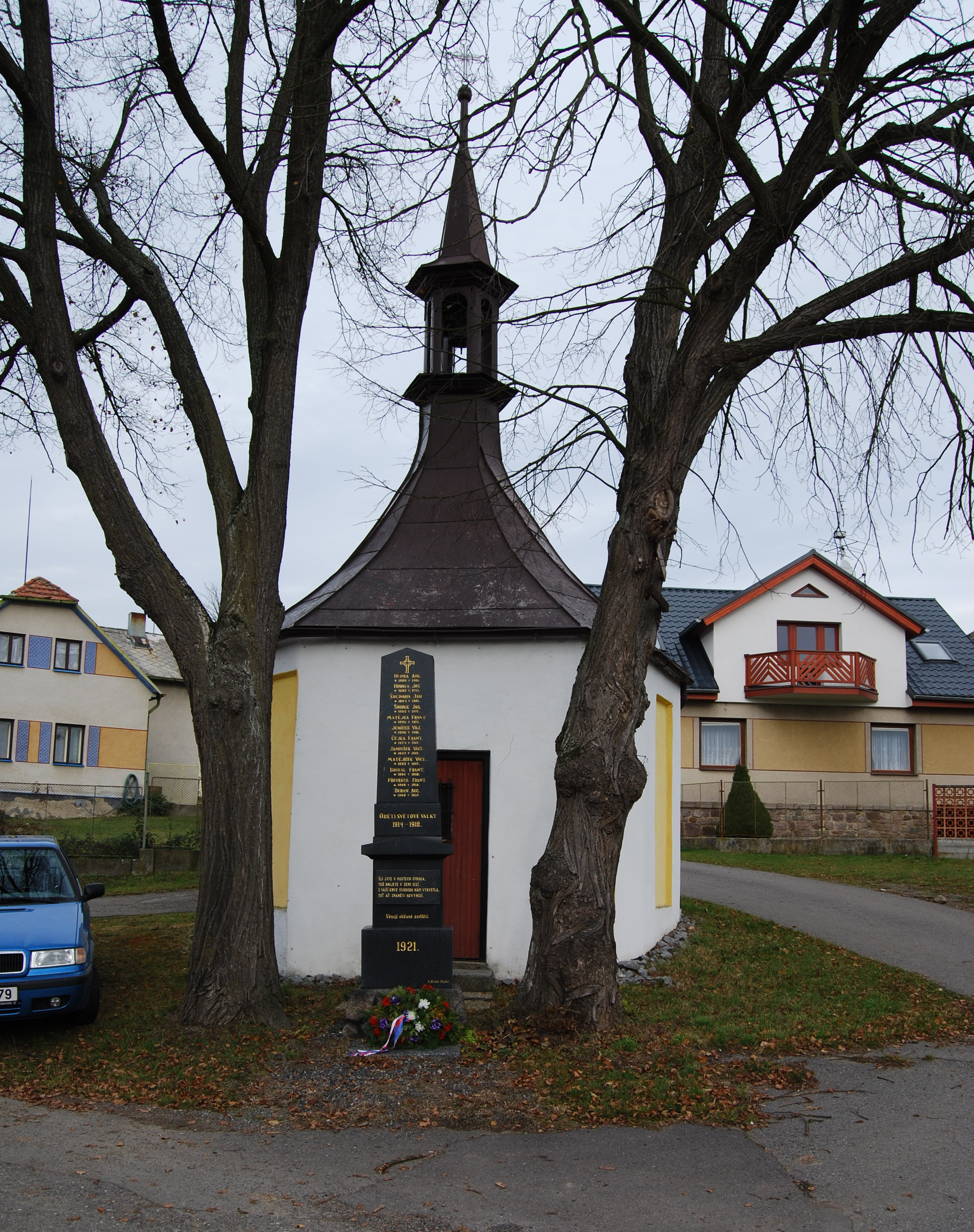 Sedlice village in Příbram District, Czech Republic. Chapel